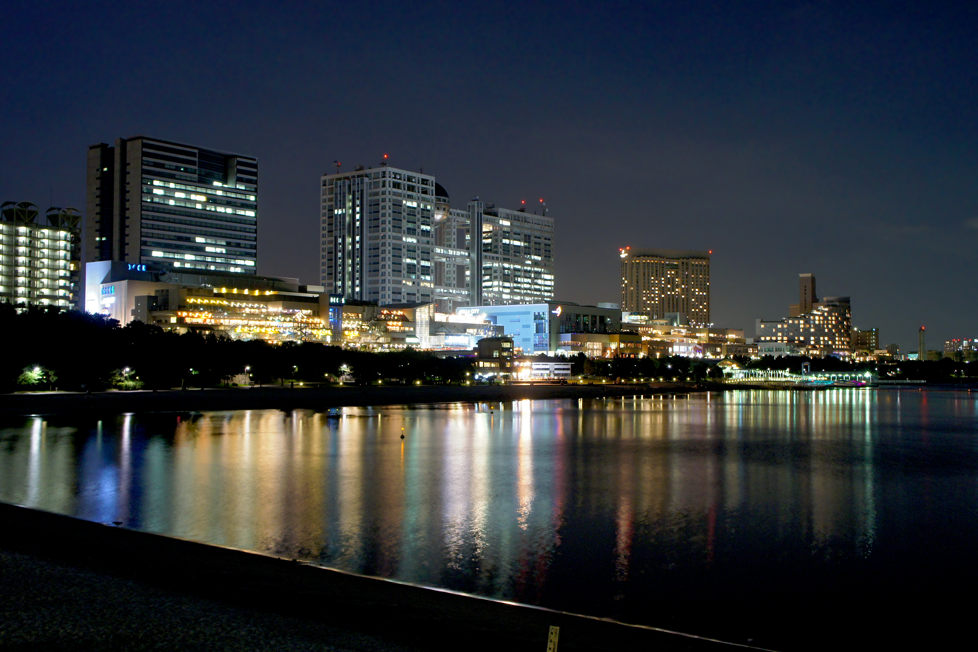 Odaiba Marine Park, Minato-ku, Tokyo, Japan